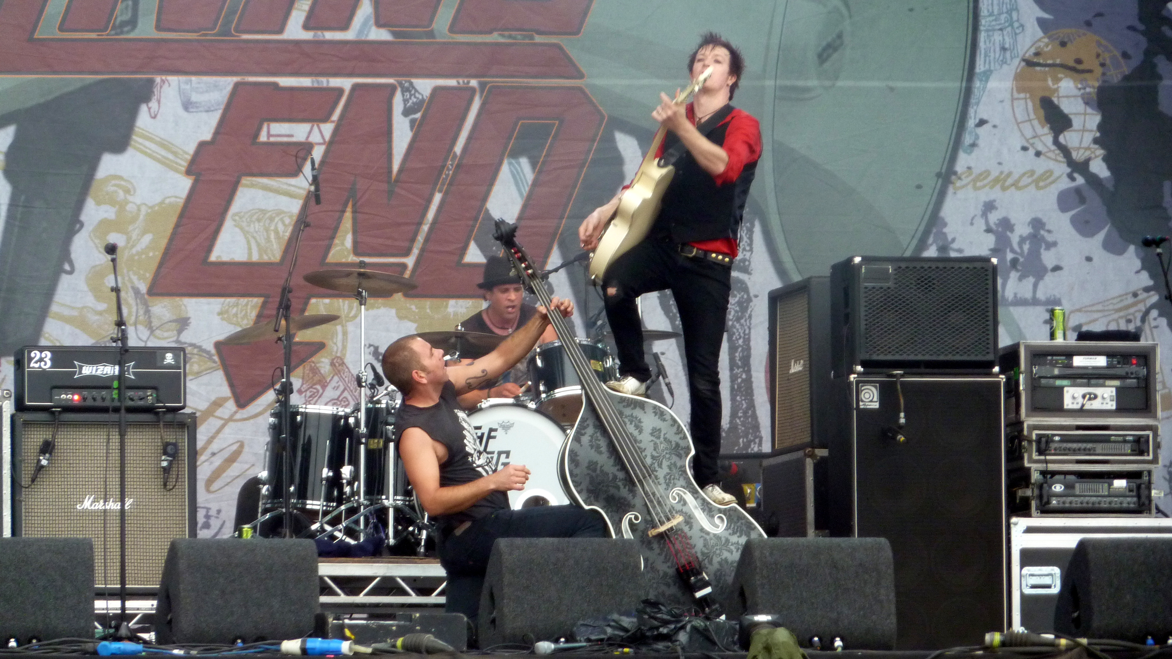 The Living End performing in Berkshire, England on 30 August 2009. Exif file at